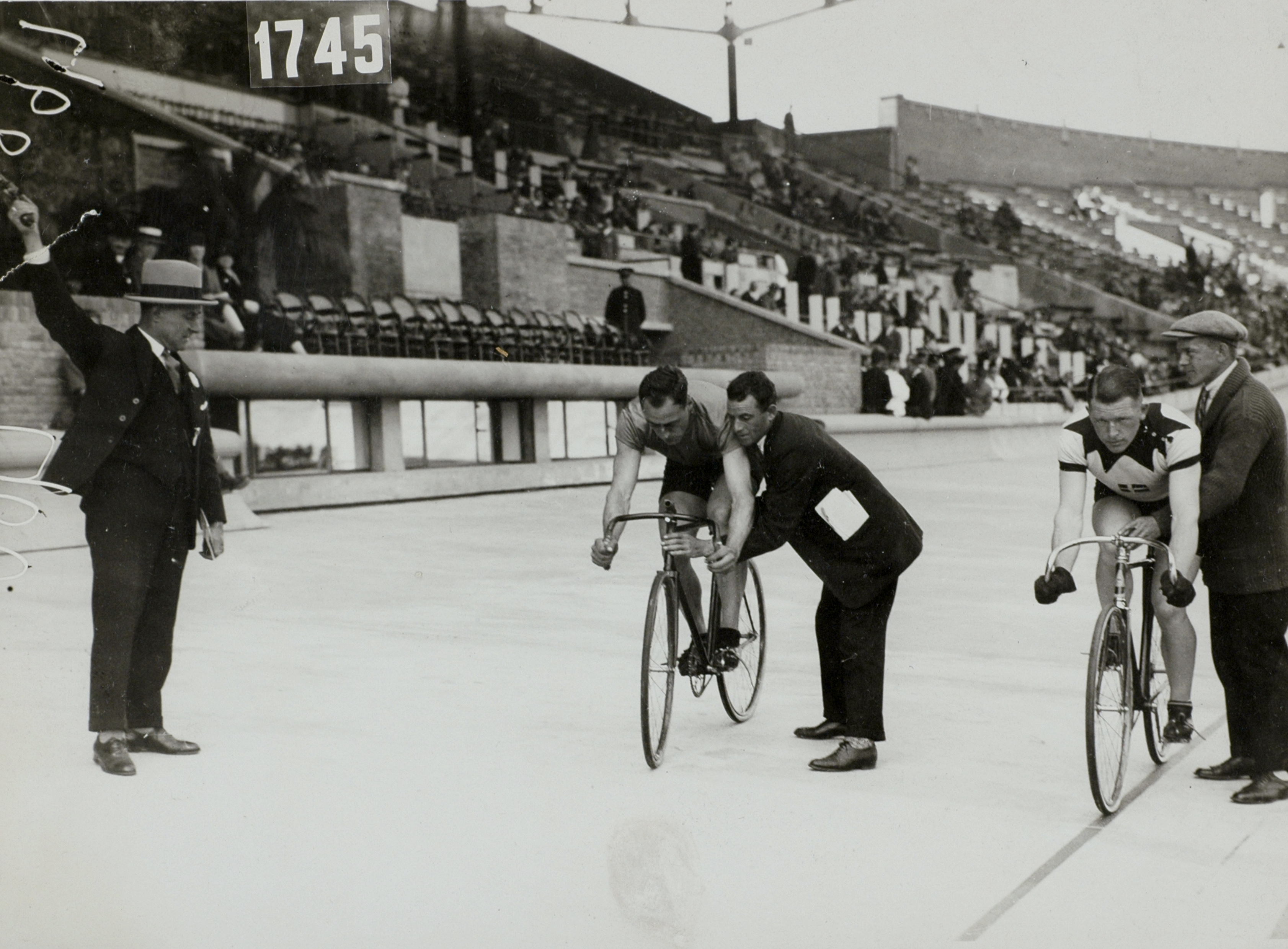 Olympic Games 1928, Amsterdam. Dutch cyclist Toine Mazairac (left) starting for the semifinal of the 1000 m sprint, against Danish Willy Falck Hansen.